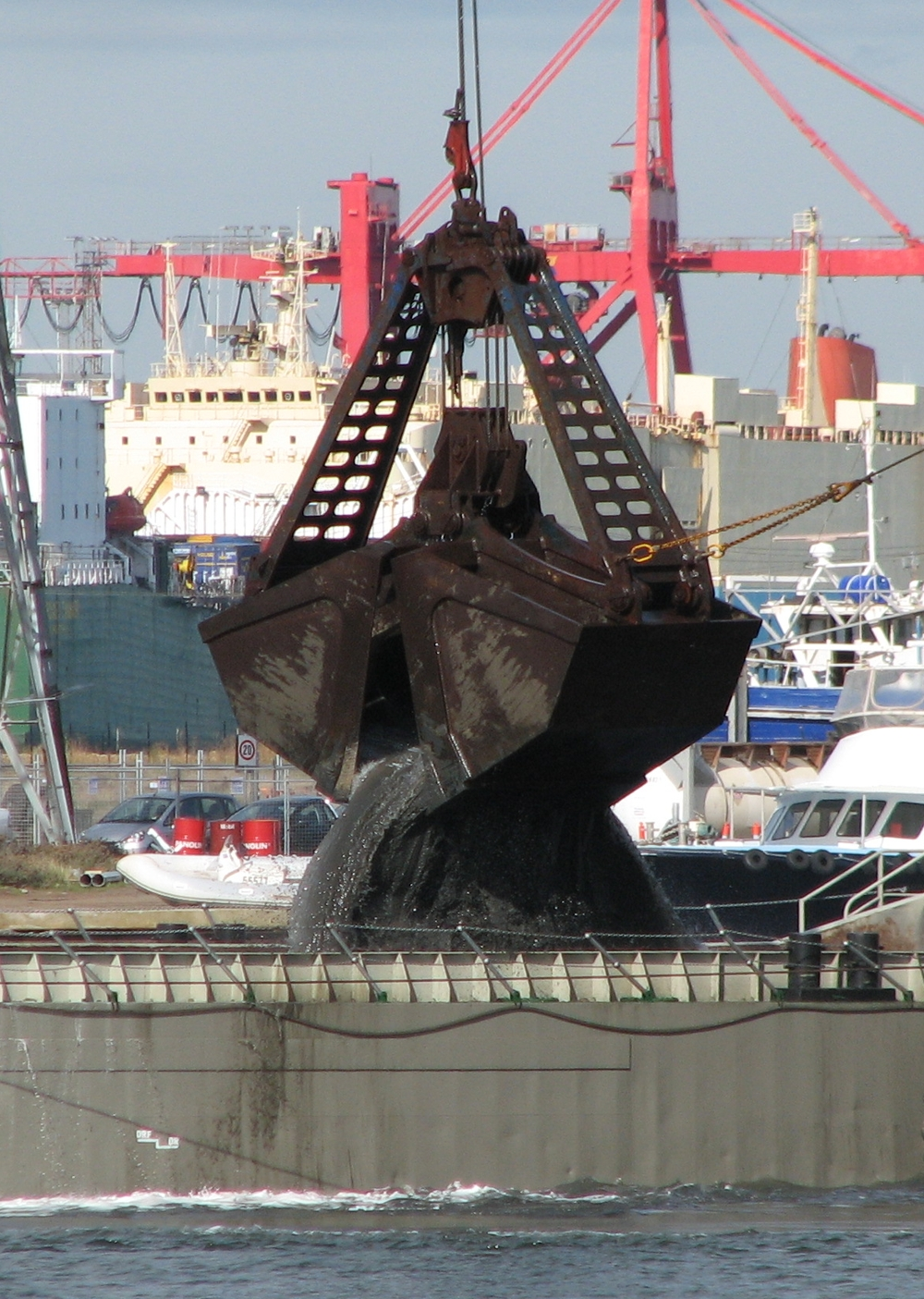 Goomai ( IMO 7006900) and barge Resolution during dredging operations on the Yarra River, Melbourne.